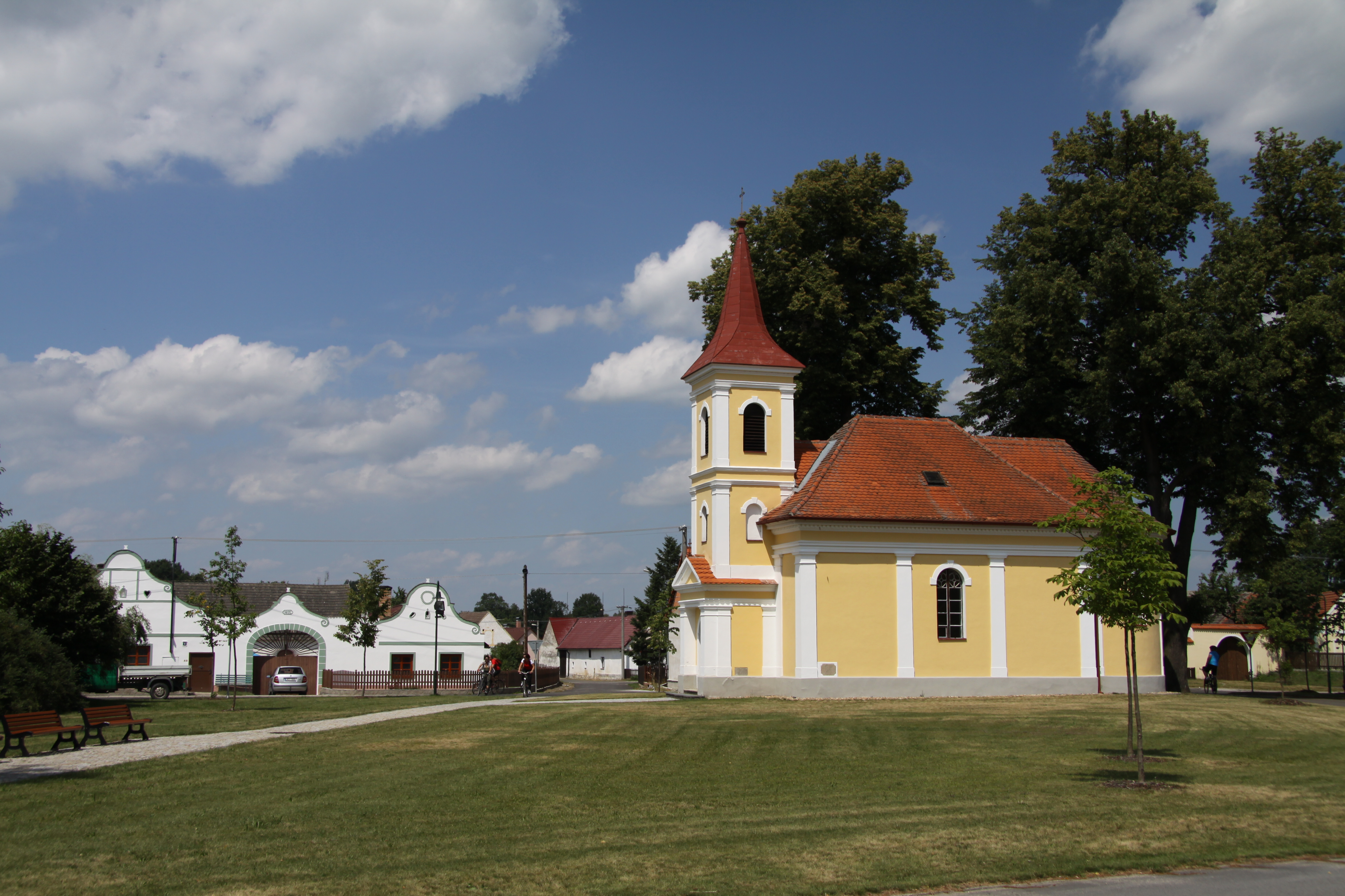 Chapel in Lužnice village in Jindřichův Hradec District, Czech Republic